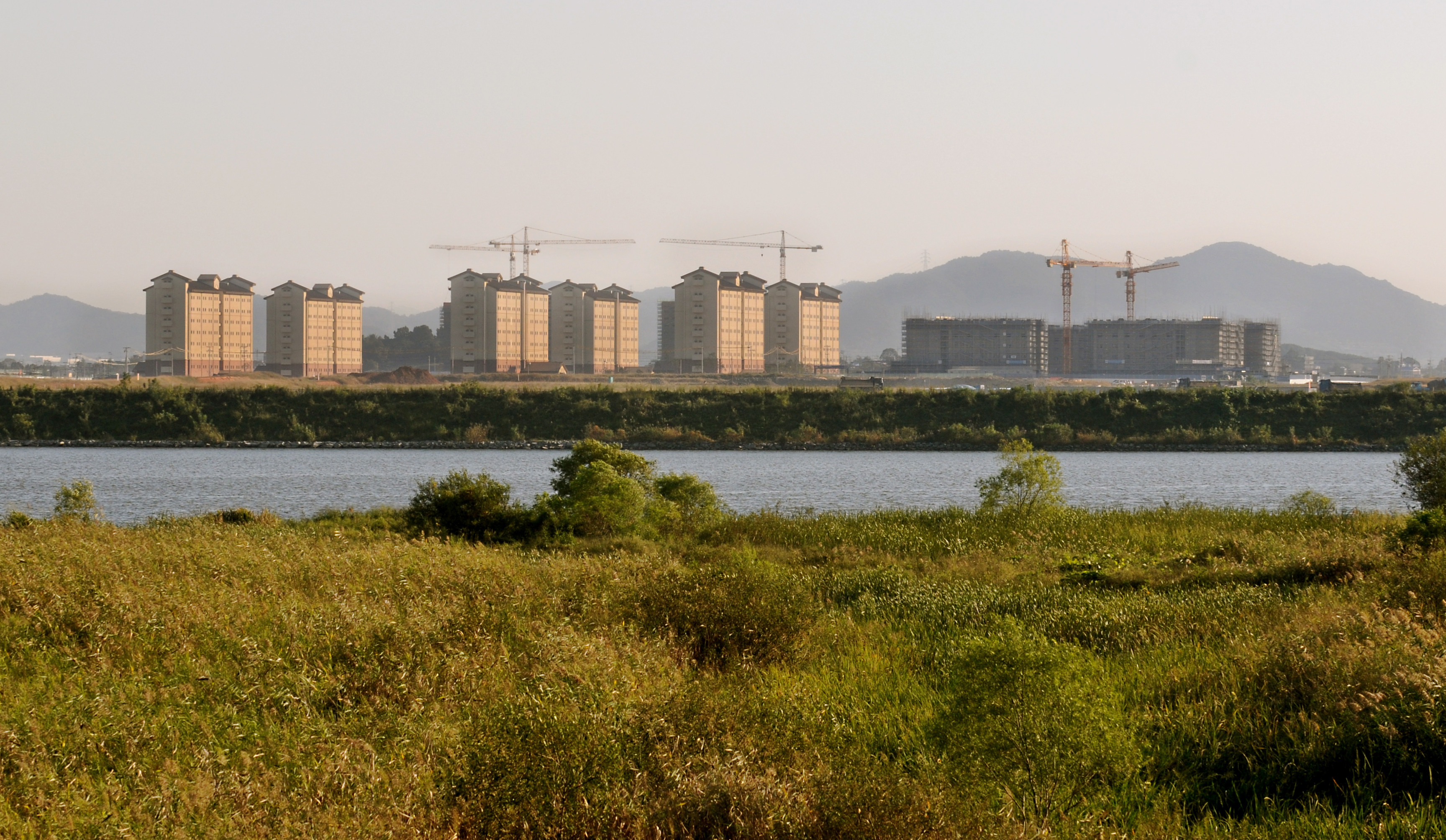 Construction of single soldier barracks (left) and family housing towers on U.S. Army Garrison Humphreys, South Korea. U.S. Army Garrison Humphreys official image archive